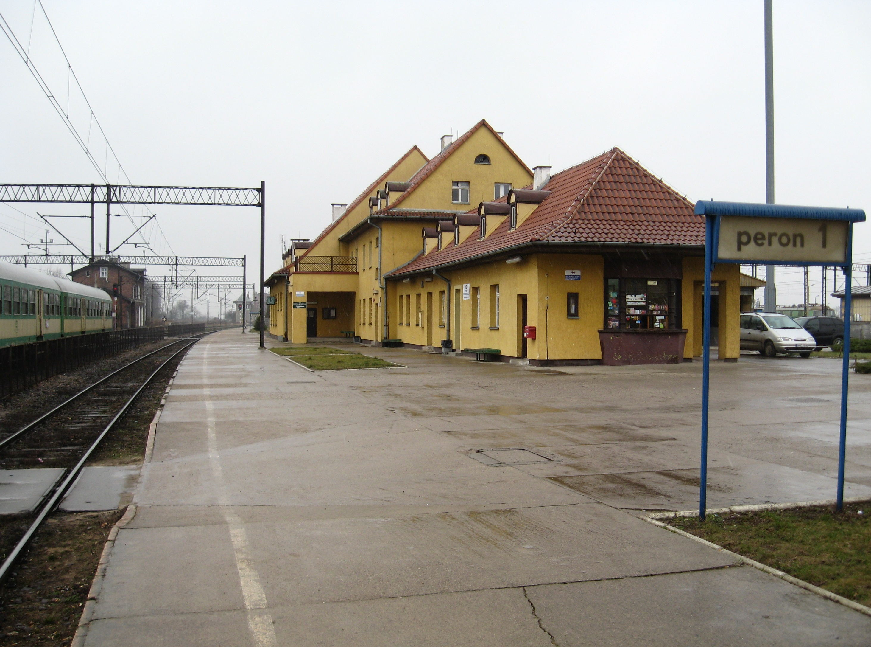 train station of Korsze, Poland.